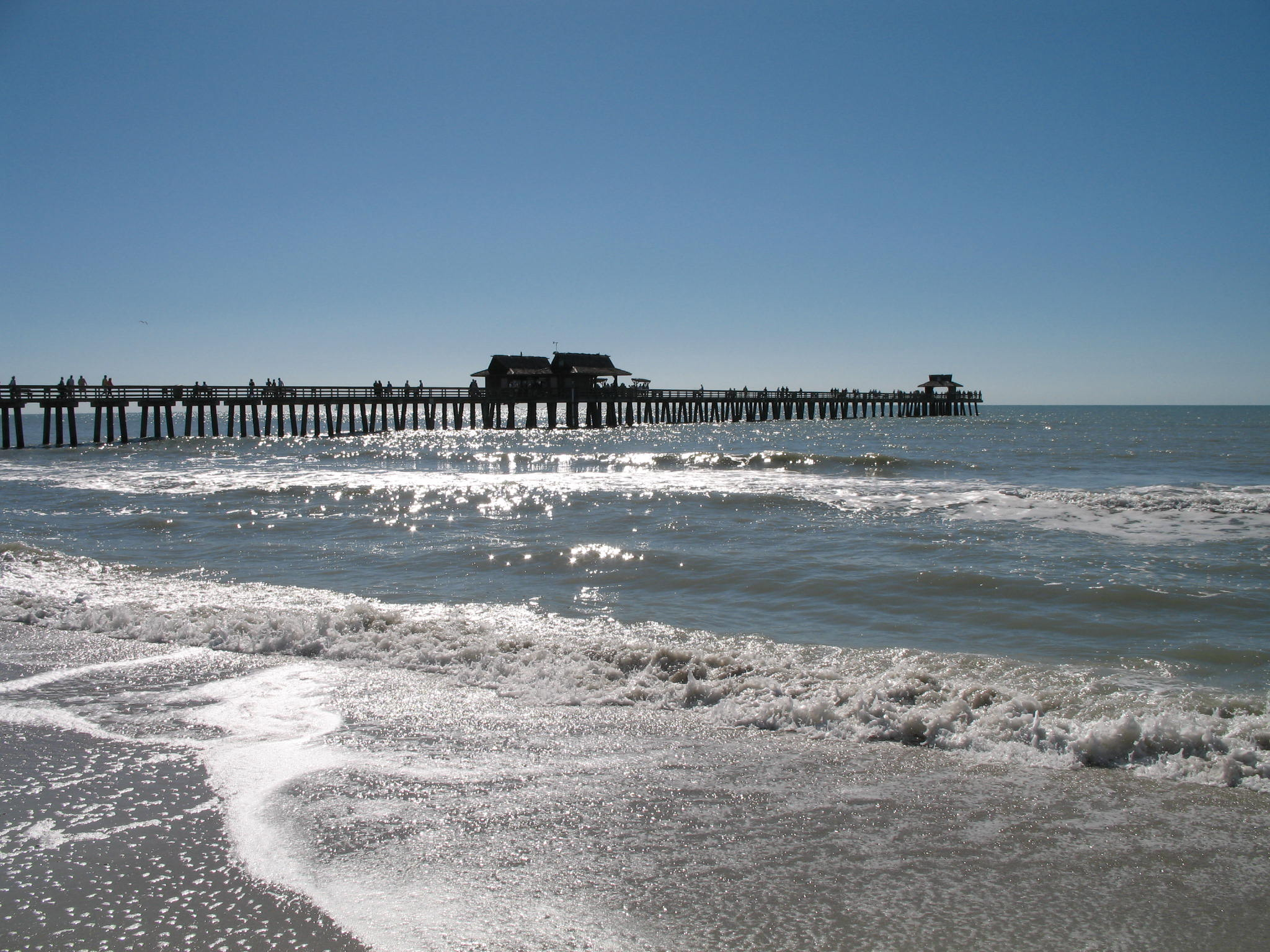 Naples, Florida: the Pier